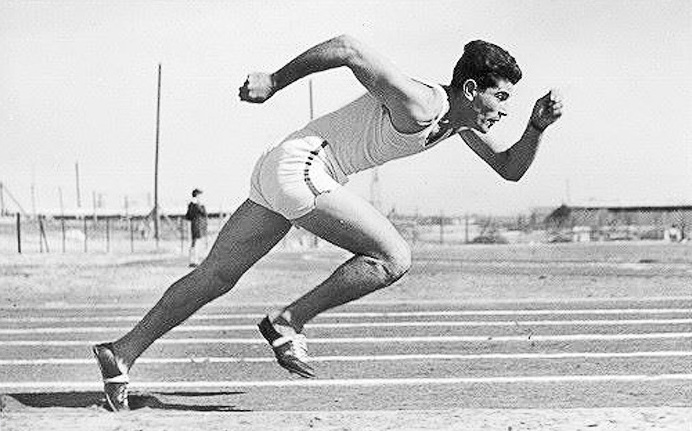 A sprinter during the 1st Maccabiah